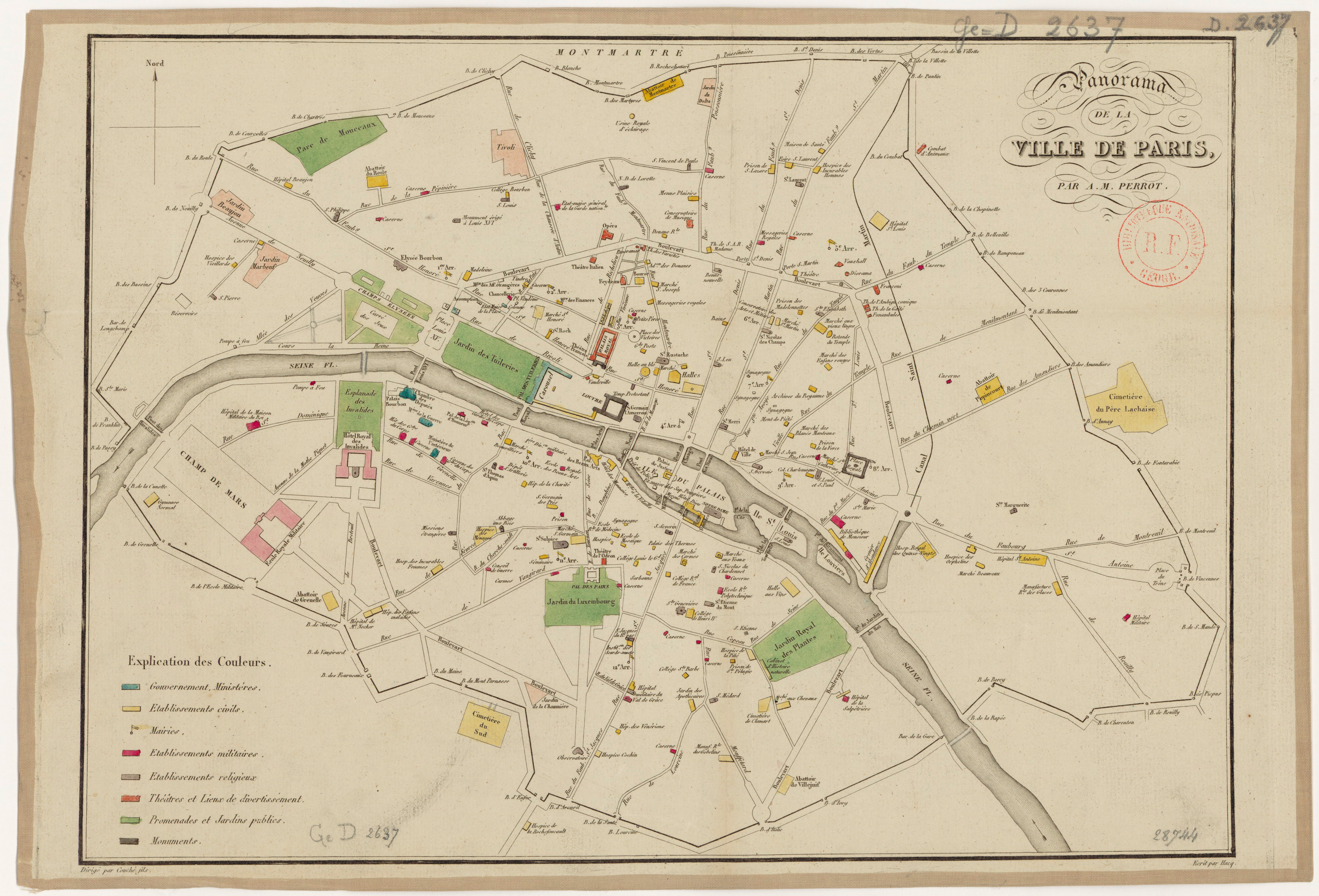 Map (38 x 28 cm) showing Paris as it was in the first part of 1826 with the title: "Panorama de la ville de Paris / par A.-M. Perrot". The map indicates the locations of important buildings, promenades and gardens, and other monuments using a color code, which is explained in the legend in the lower left corner ("Explication des couleurs"). North is up. The scale is not shown.